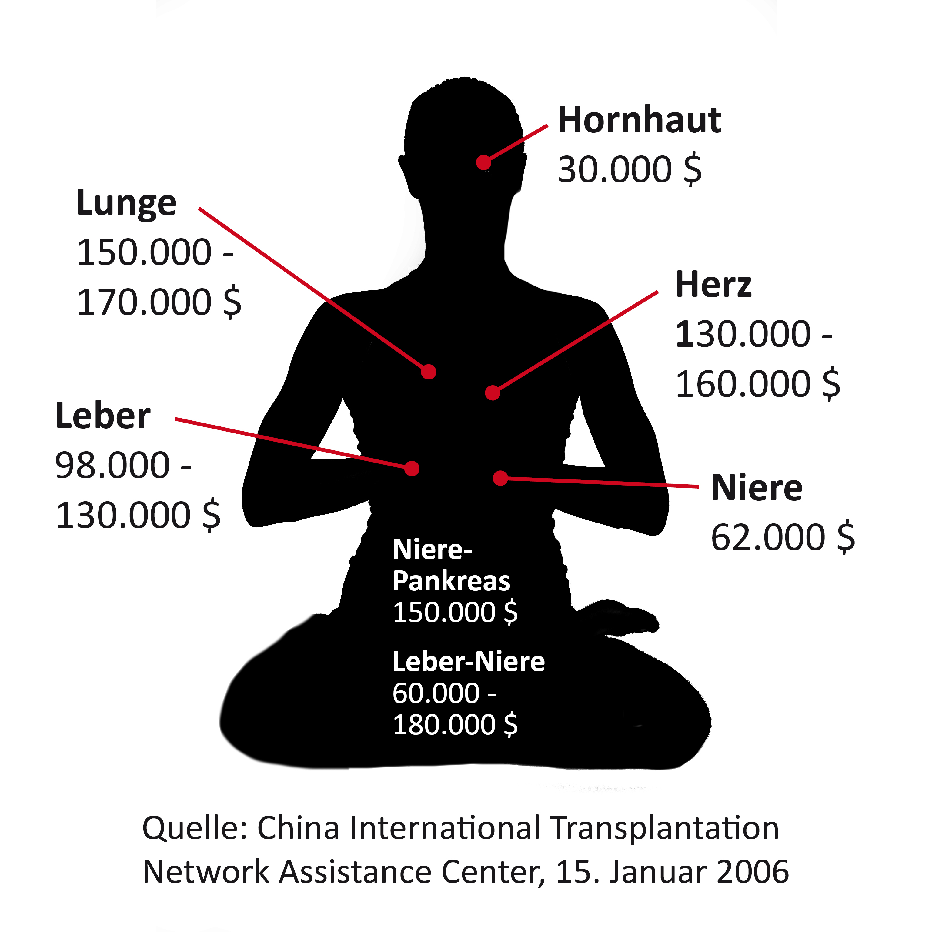 This graph shows the prices for organ transplants from the China International Transplantation Network Assistance Center from January 15, 2006